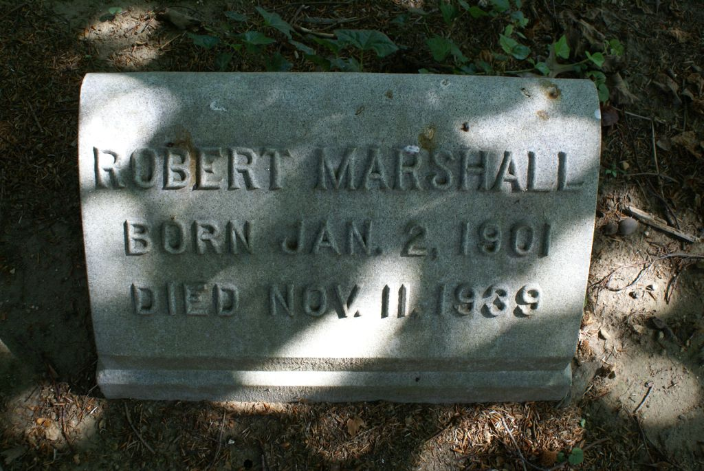 The headstone of Bob Marshall in Salem Fields Cemetery, Brooklyn, NY